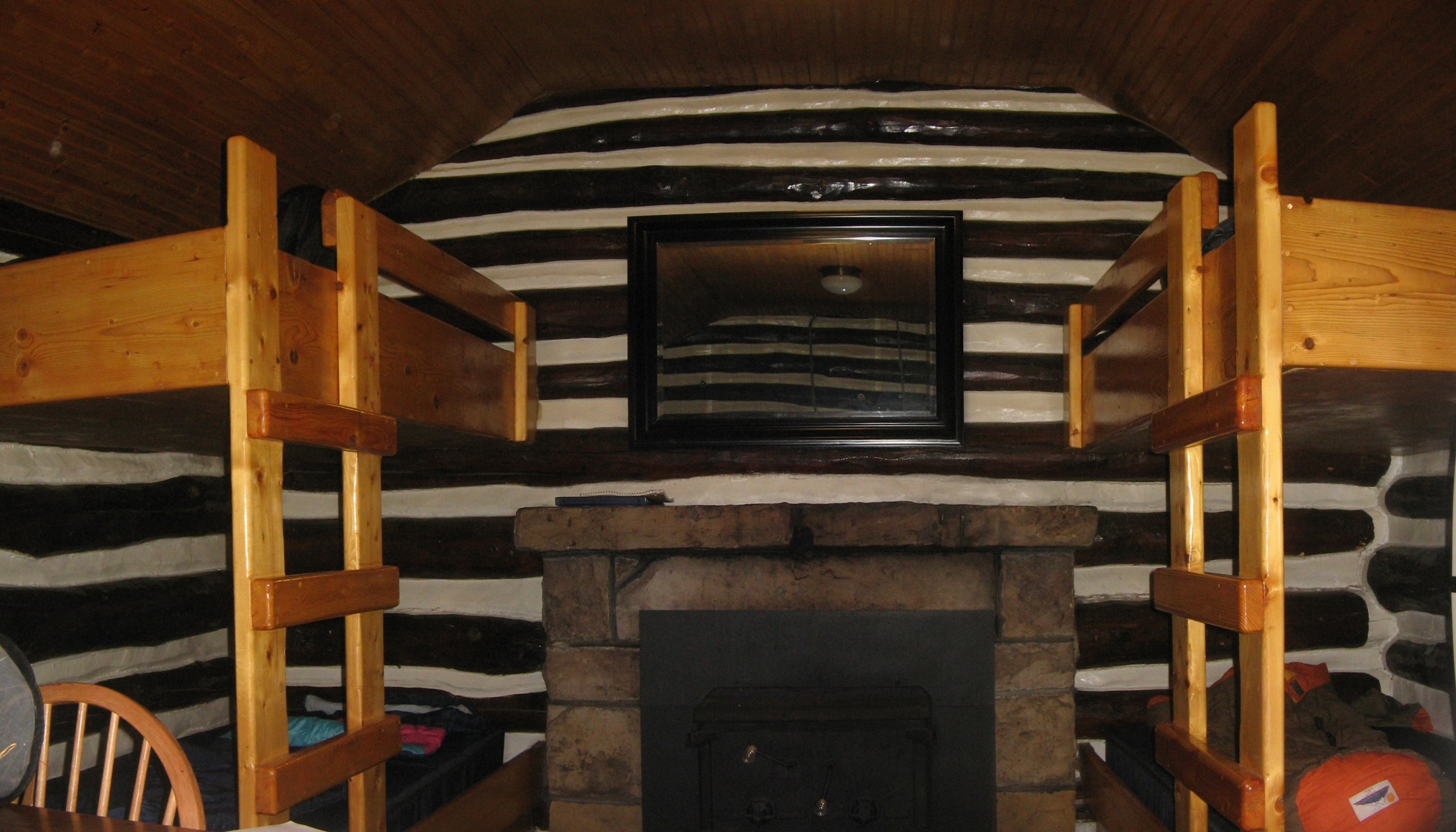 Interior of CCC built Cabin (Number 4, one room) at Black Moshannon State Park, near Phillipsburg, Rush Township, Centre County, Pennsylvania, USA.